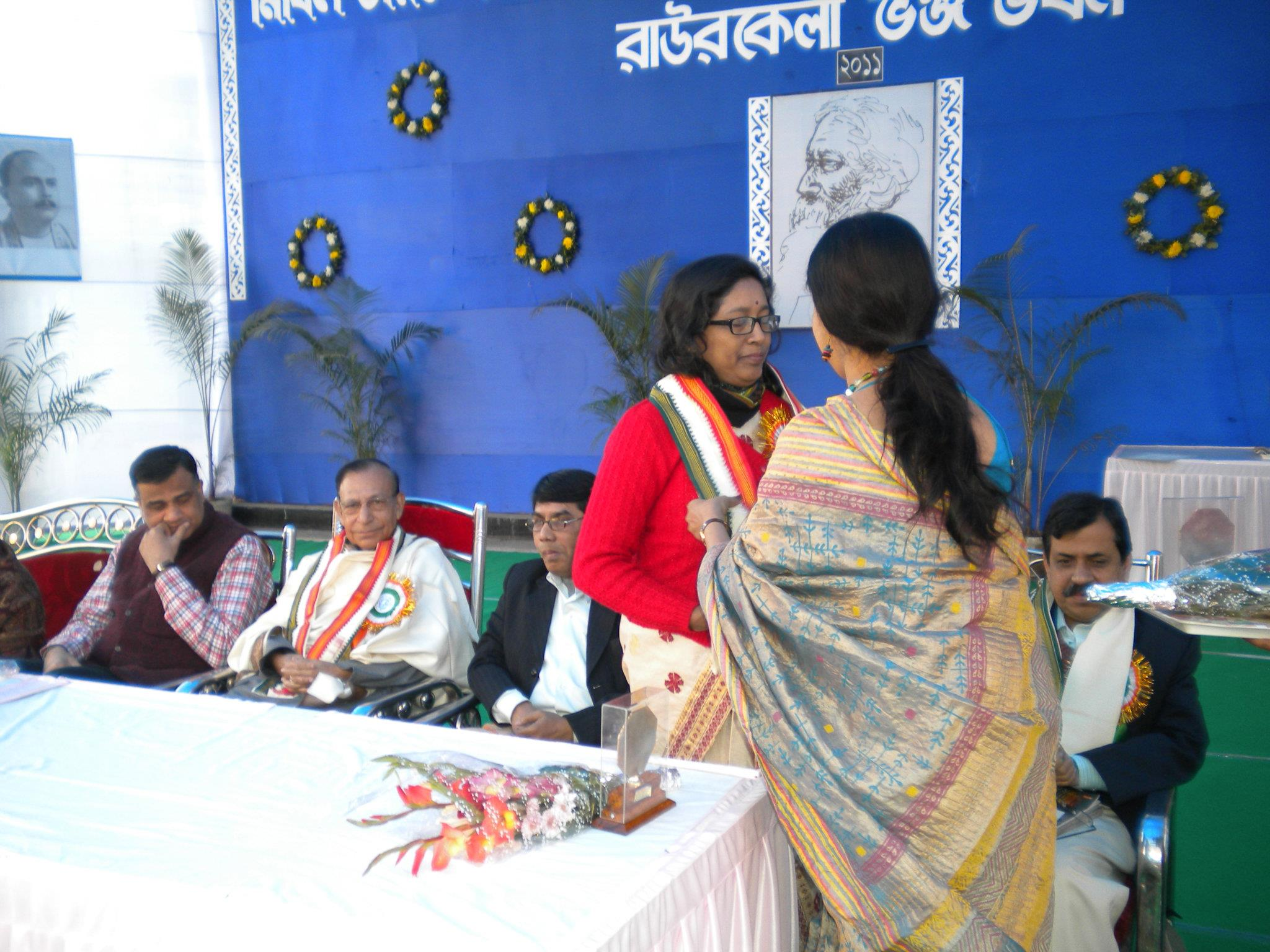 Event at Rourkela